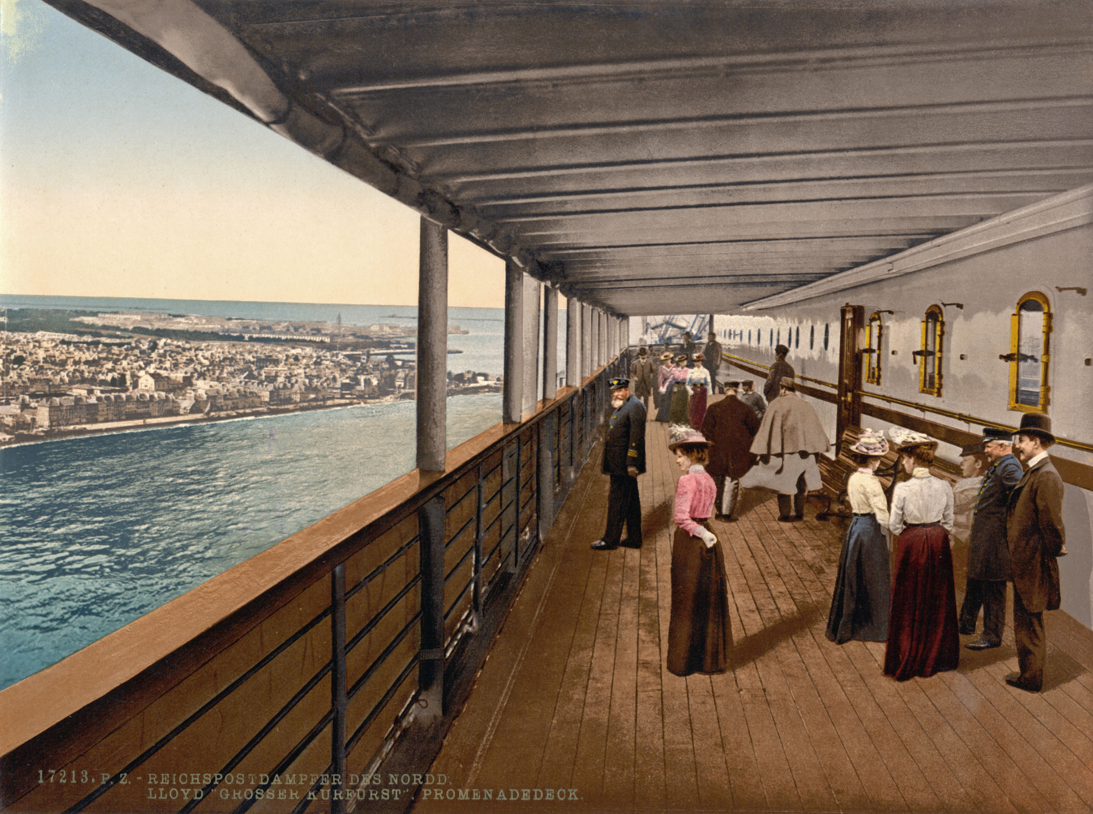 Description information copied from Library of Congress website: TITLE: "Grosser Kurfurst," Promenade Deck, North German Lloyd, Royal Mail Steamers CALL NUMBER: LOT 13411, no. 1210 [item] [P&P] REPRODUCTION NUMBER: LC-DIG-ppmsca-02210 (digital file from original) RIGHTS INFORMATION: No known restrictions on publication. MEDIUM: 1 photomechanical print : photochrom, color. CREATED/PUBLISHED: [between ca. 1890 and ca. 1900]. NOTES: Title from the Detroit Publishing Co., catalogue J--foreign section. Detroit, Mich. : Detroit Photographic Company, 1905. Print no. "17213". Forms part of: Views of Germany in the Photochrom print collection. FORMAT: Photochrom prints Color 1890-1900. PART OF: Views of Germany REPOSITORY: Library of Congress Prints and Photographs Division Washington, D.C. 20540 USA DIGITAL ID: (digital file from original) ppmsca 02210 CONTROL #: 2002720836